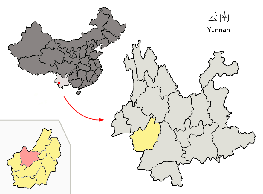 Location of Yongde County (pink) and Lincang Prefecture (yellow) within Yunnan province of China Map drawn in september 2007 using various sources, mainly : Yunnan province administrative regions GIS data: 1:1M, County level, 1990 Yunnan Counties map from